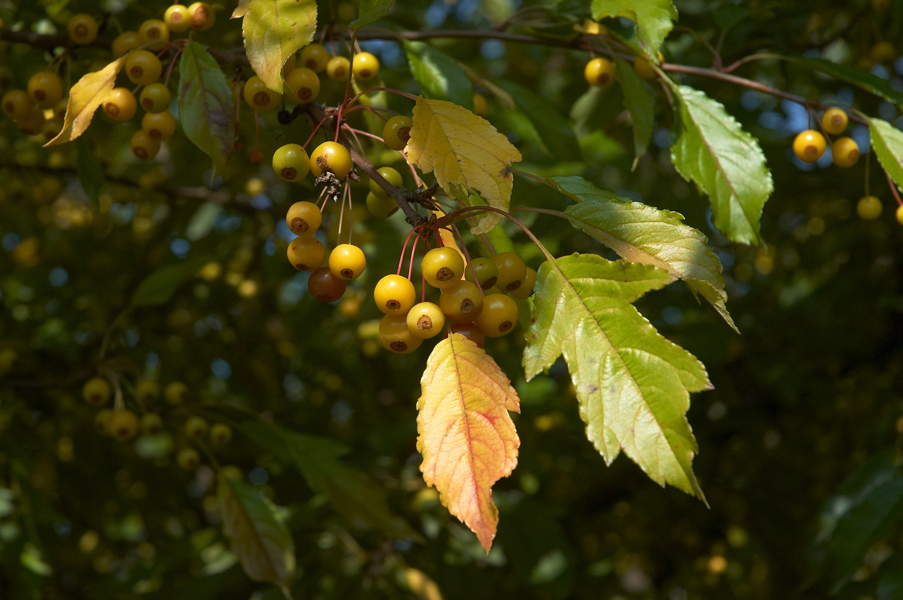 Fruits of Malus toringo var. sargentii, sieboldii Other photos of the same tree